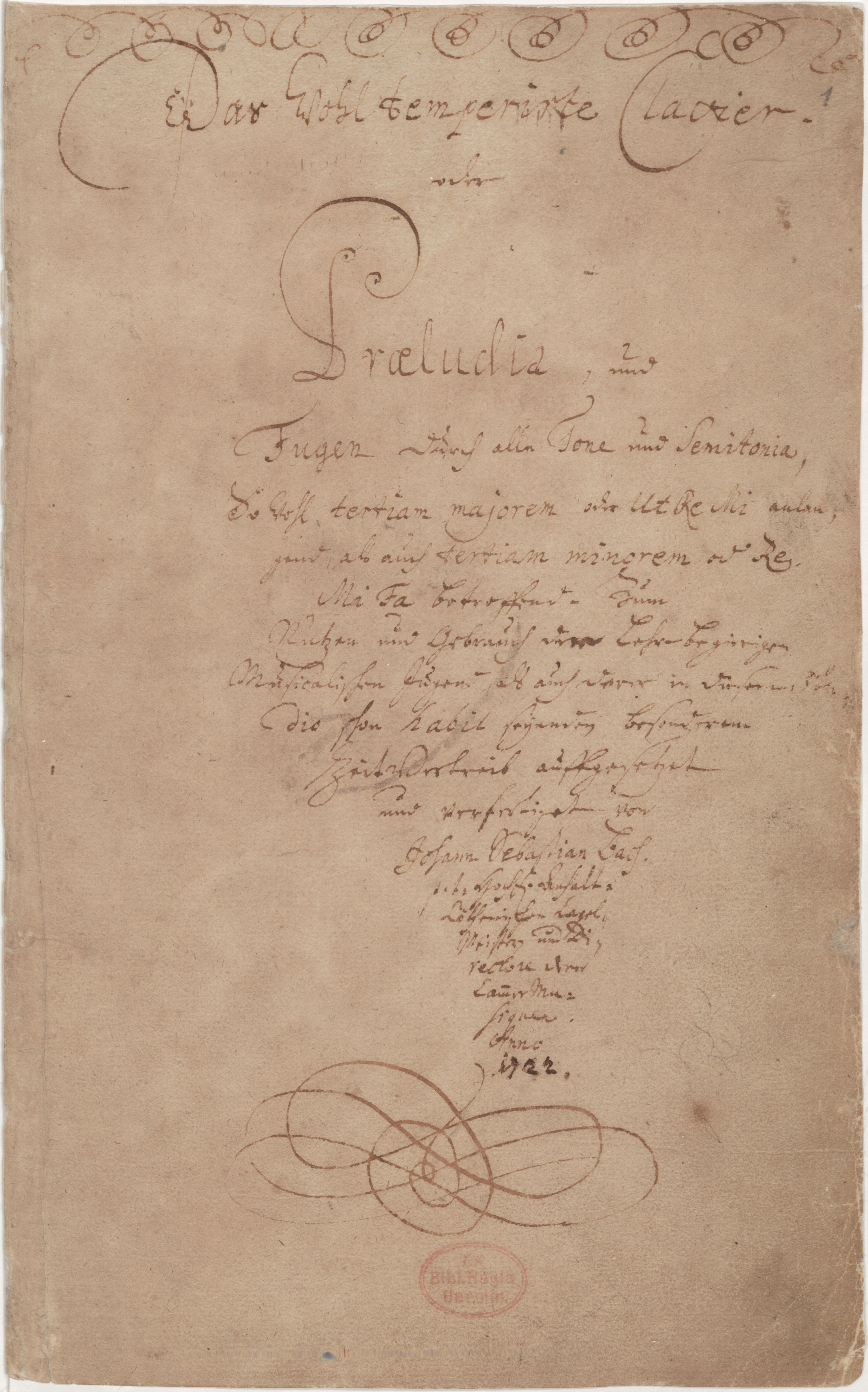 Title page of the first volume of The Well-Tempered Clavier, in Bach's handwriting, ms. P 415.